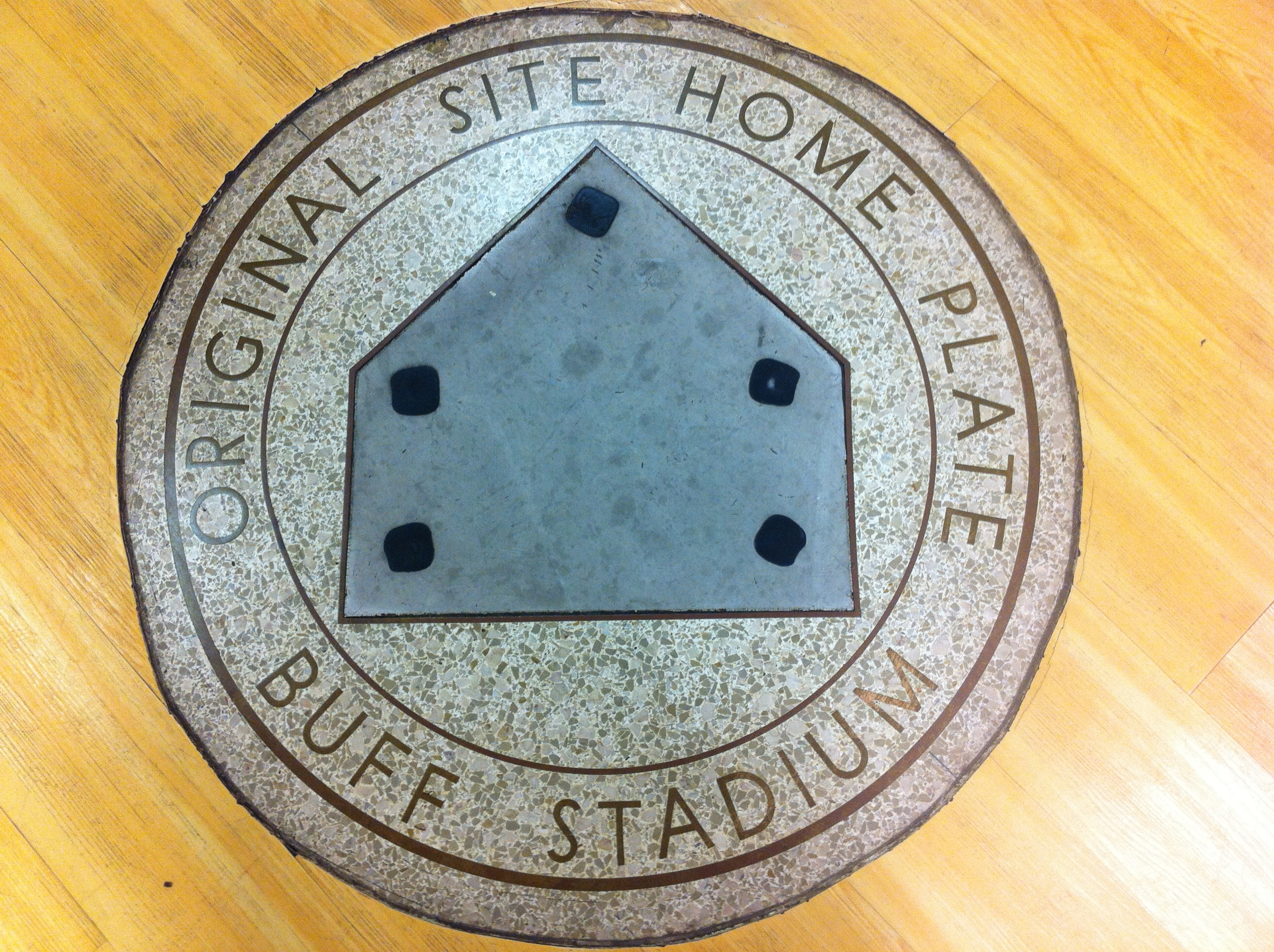 The home plate of Buffalo Stadium in its original location at the Houston Sports Museum which was built around the plate.